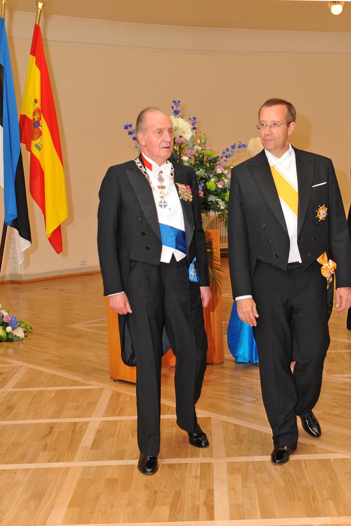 King Juan Carlos I and President of Estonia Toomas Hendrik Ilves. May 4th 2009. Spanish Royal Couple's Official Visit to Estonia